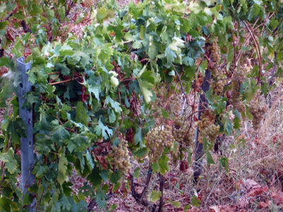 White Malvasia grapes on the vine in the Aeolian Islands